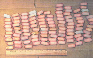 One hundred heroin-filled balloons that were swallowed and transported internally by drug couriers.